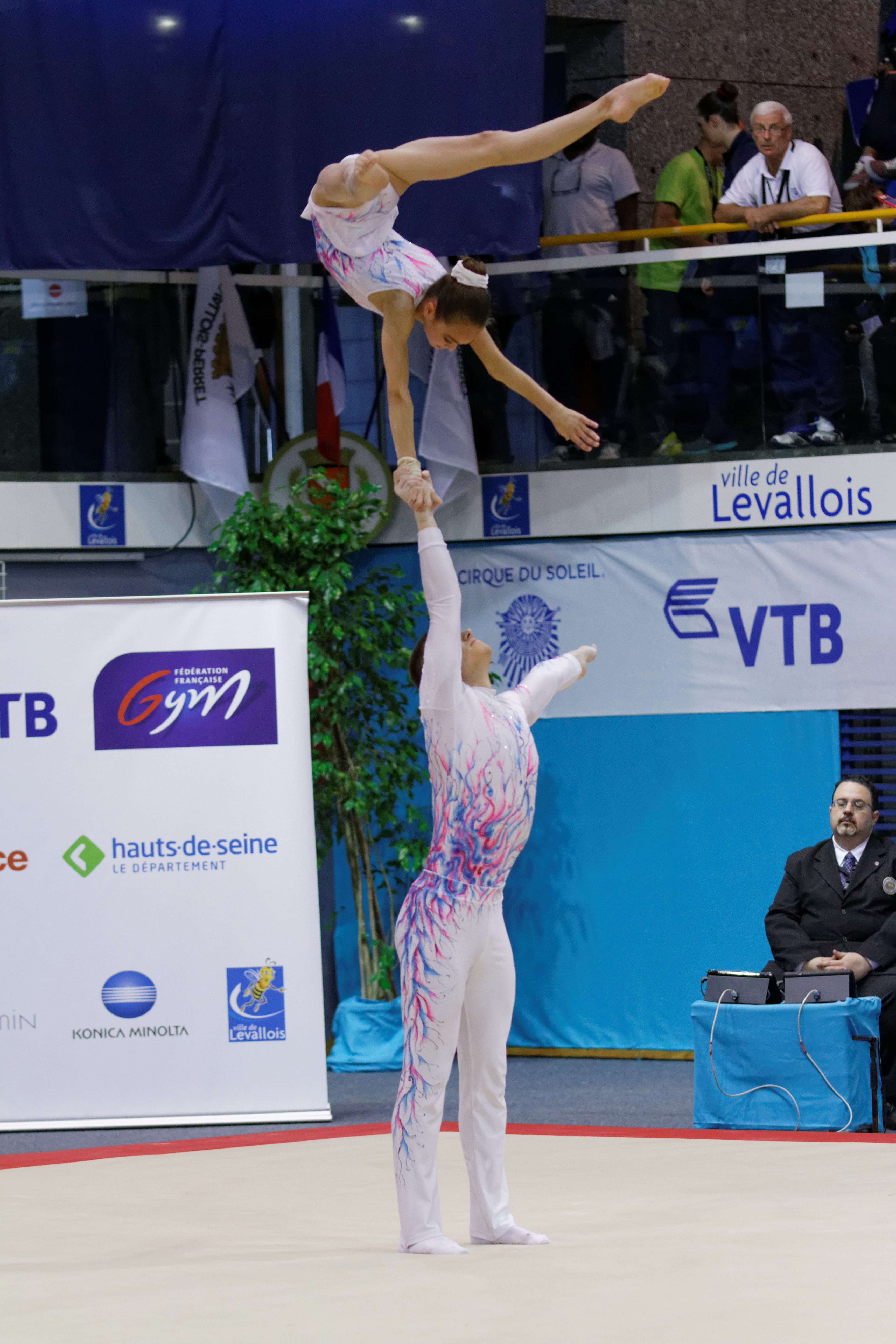 2014 Acrobatic Gymnastics World Championships, 10th-12 July, Levallois-Perret, France. Qualifications: mixed pair. Ukraine.